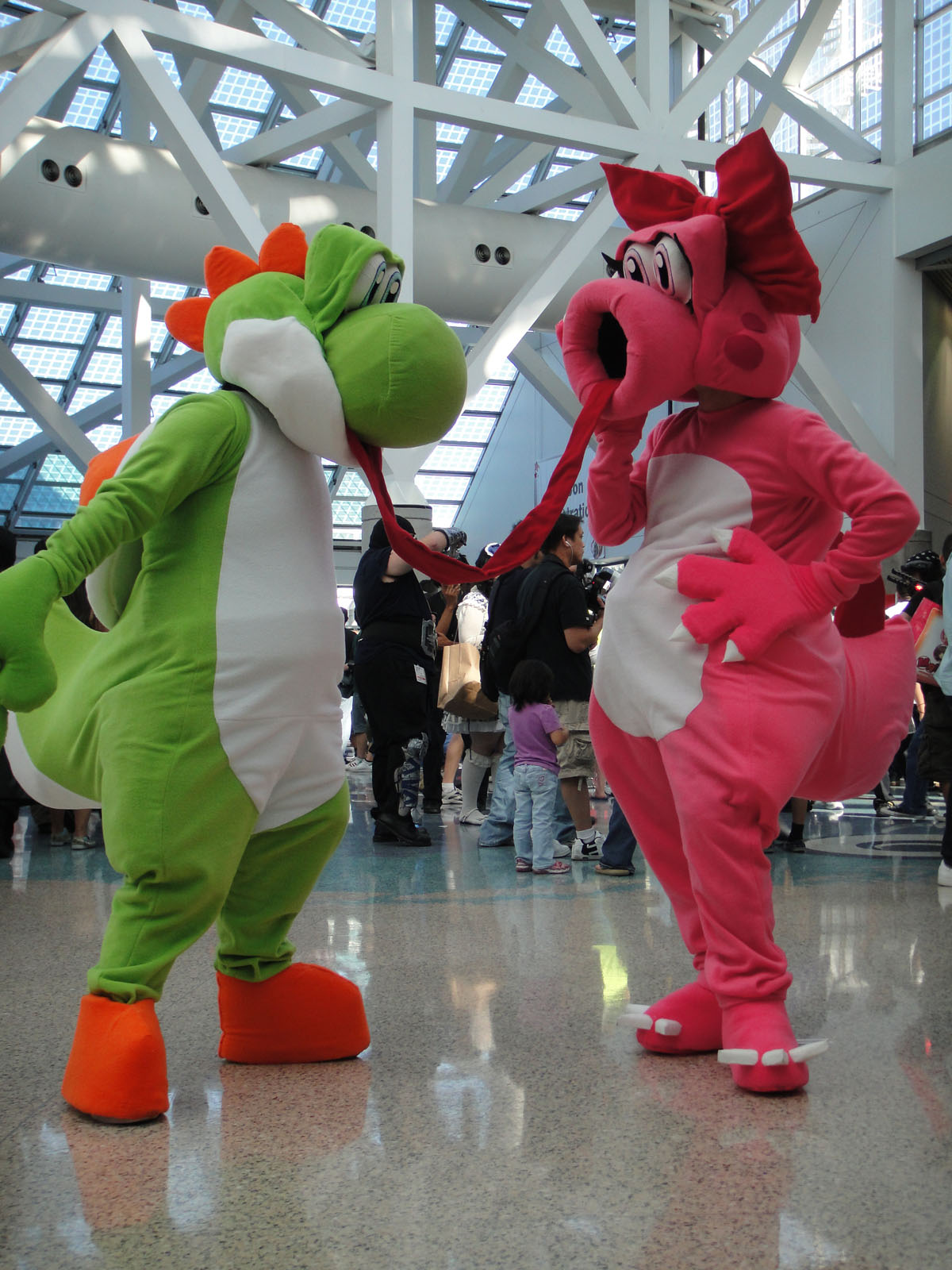 photo 2011 taken by Doug Kline If you're interested in higher resolution versions of my images, contact me via my profile page.